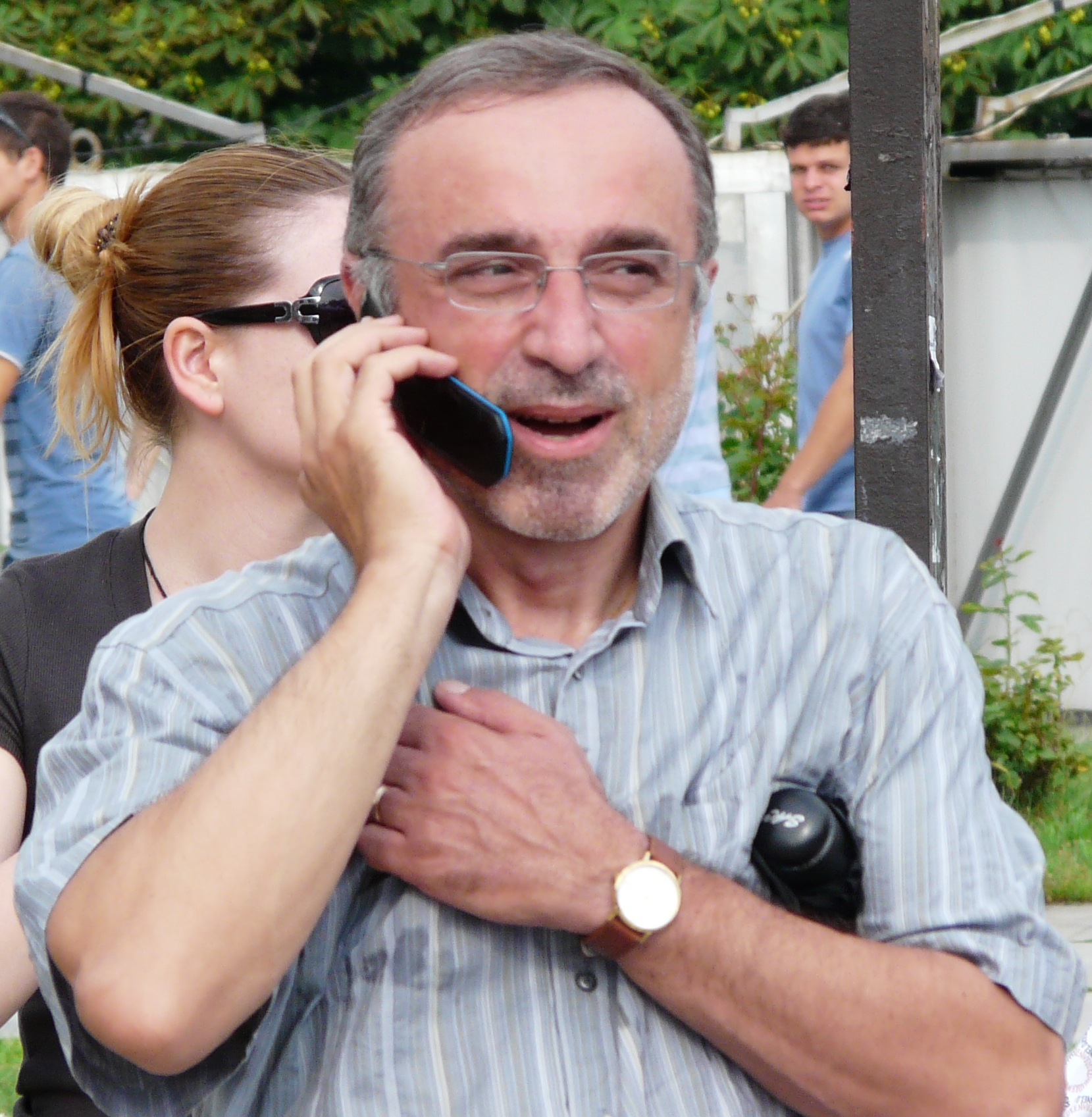 Bulgarian politician Veselin Metodiev.